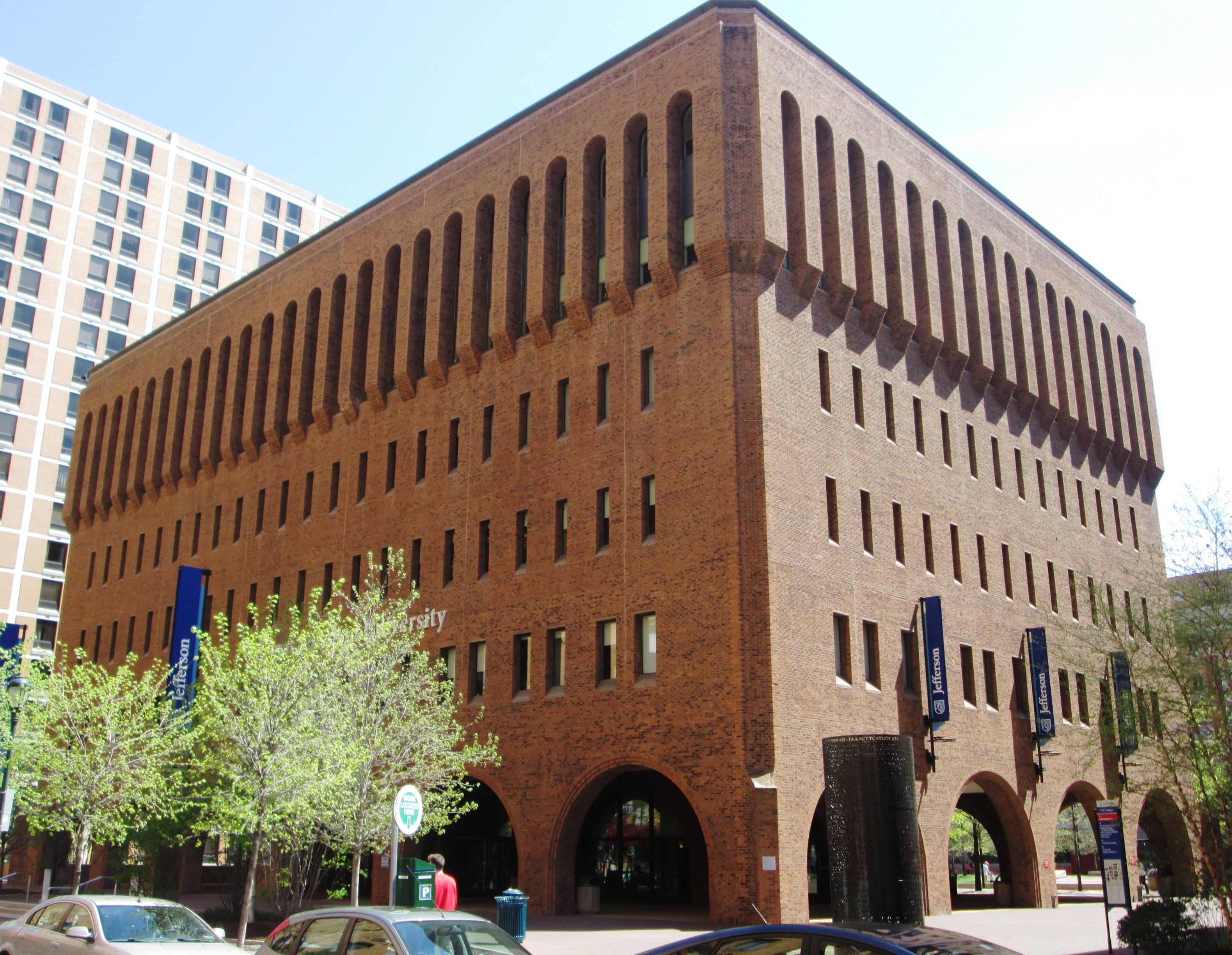 Scott Memorial Library of Thomas Jefferson University at 1020 Walnut Street between S. 10 and S. 11 Streets in Center City, Philadelphia was built in 1969-70 and was designed by Harbeson, Hough, Livingston and Larson. (Source: "A Modest Proposal: Some Rejected and Altered Architectural Designs for TJU Campus Buildings" on the TJU website)